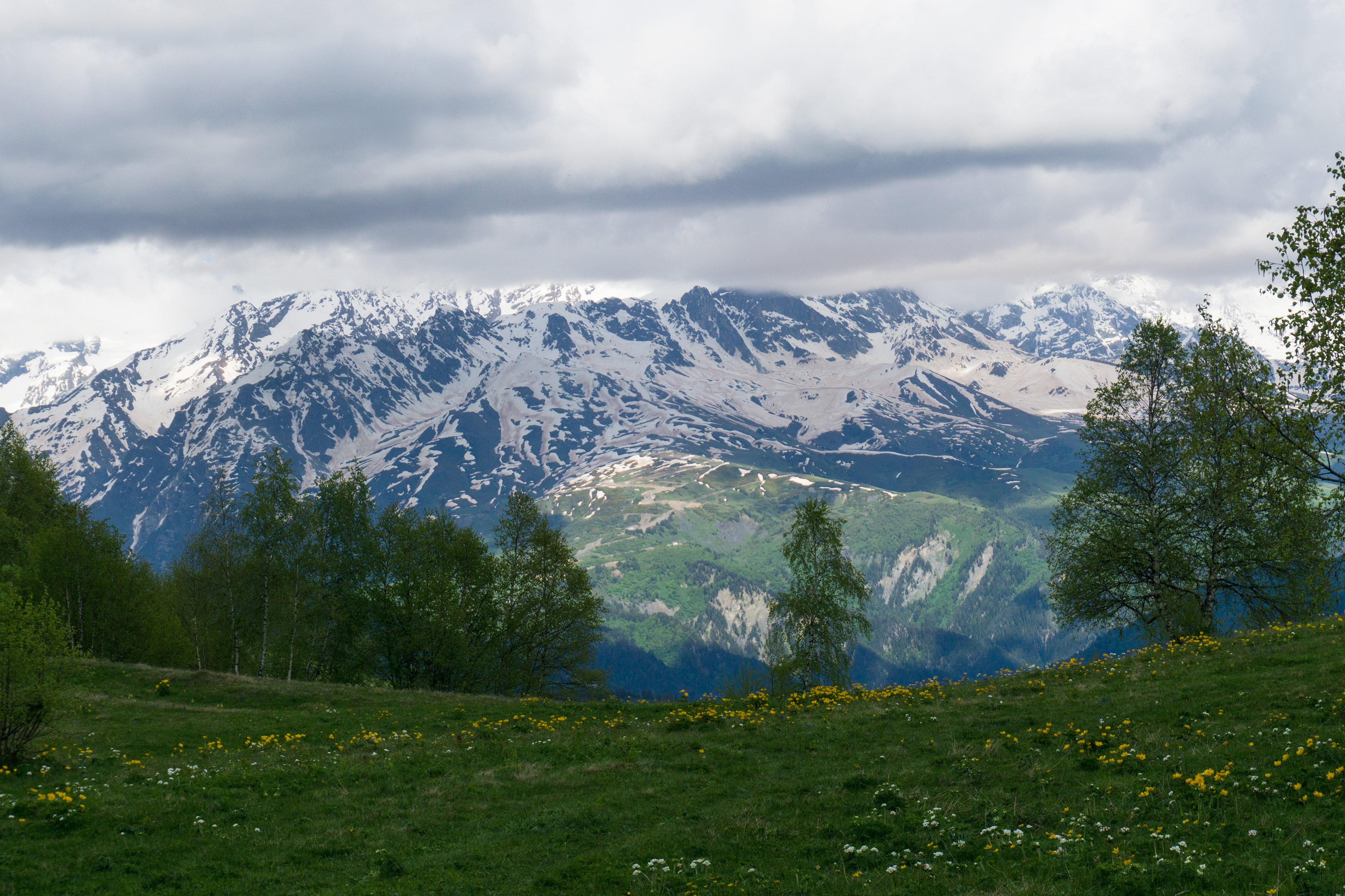 A view from mount Zuruldi, Svaneti, June, 2018